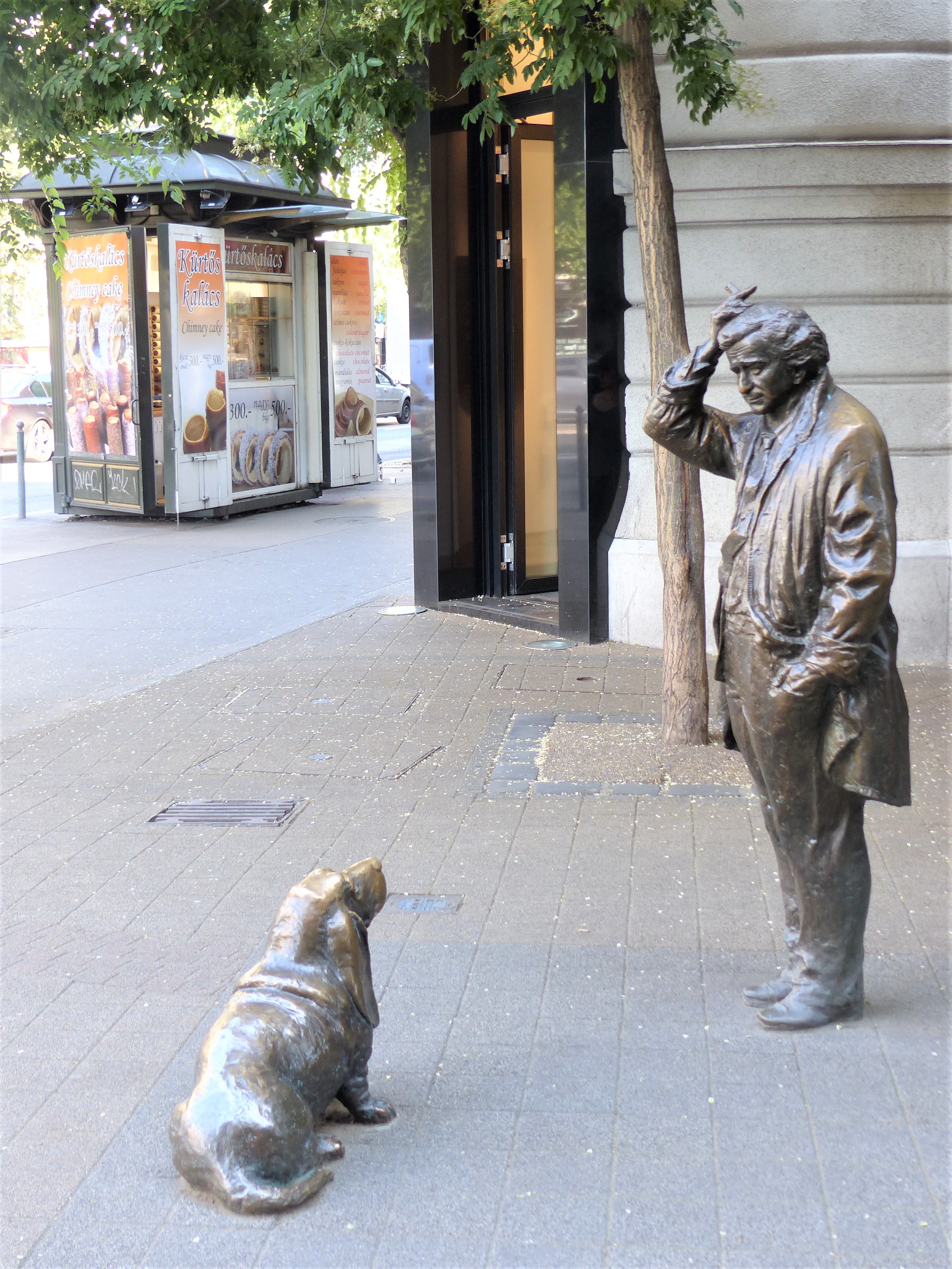 Peter Falk as Columbo with his Dog. Budapest, Central Europe. Timestamp verified.